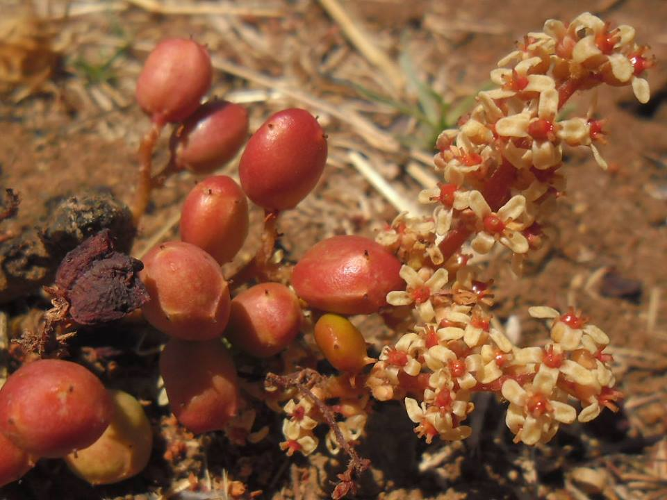 Fruit and flowers of Lannea edulis (Sond.) Engl. growing in Zimbabwe